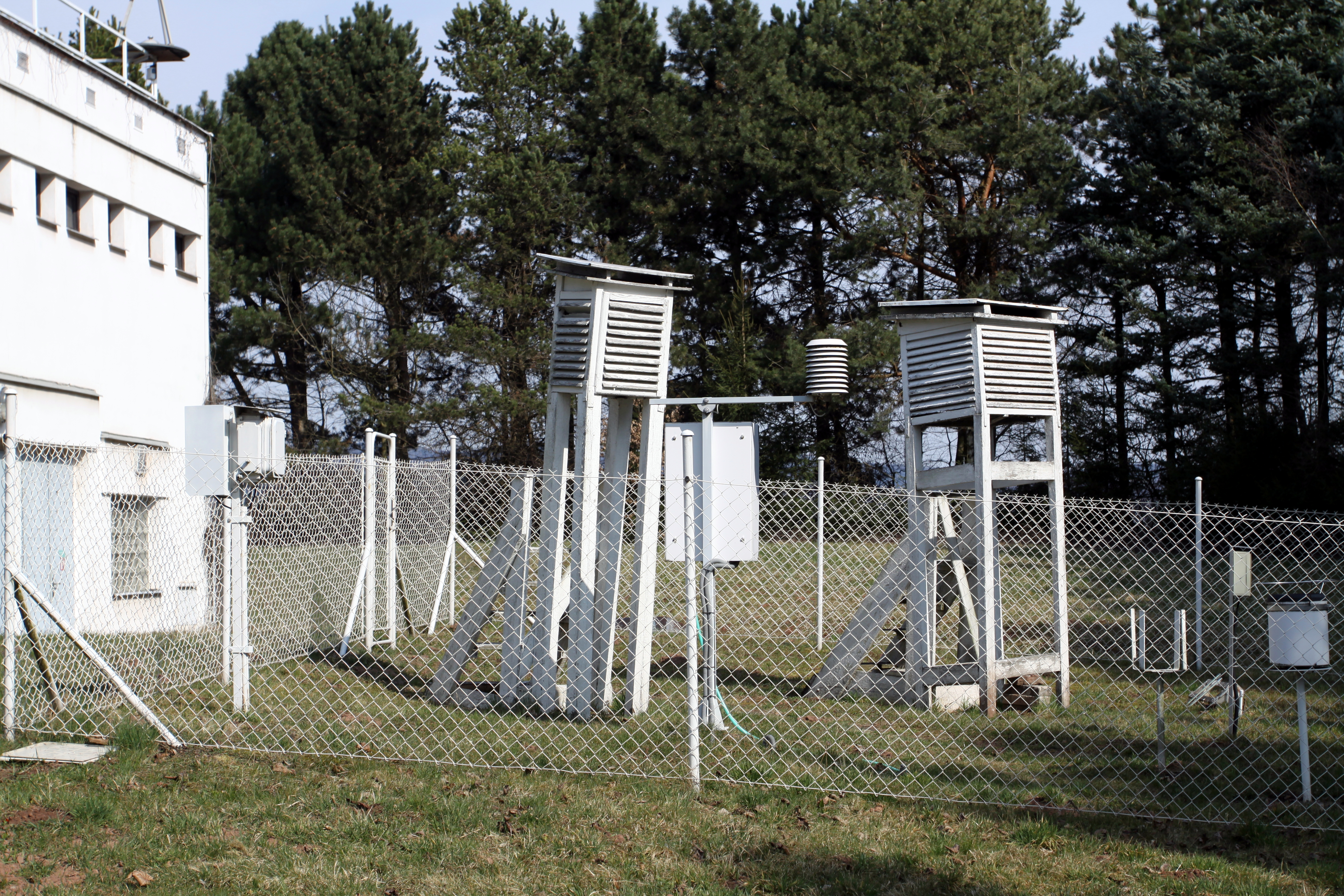 Observatory Úpice near town Úpice, Trutnov District, Czech Republic - Google Maps - Google Earth